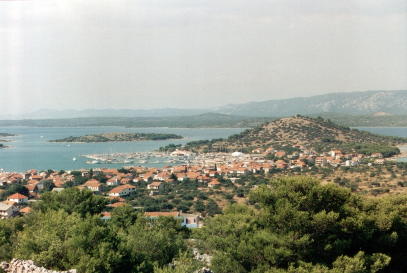 Murter, Croatia